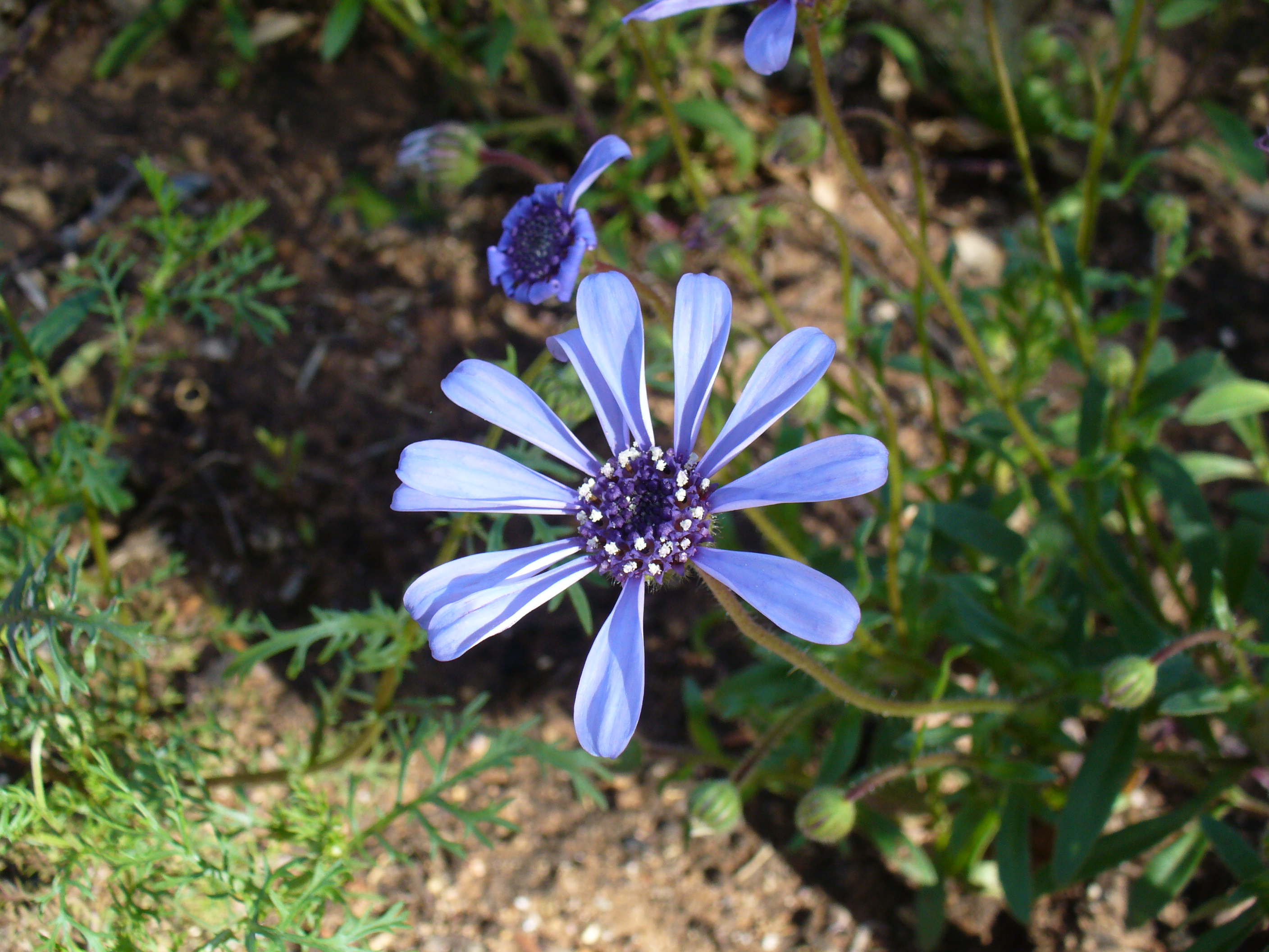 Kirstenbosch Gardens Cape Town